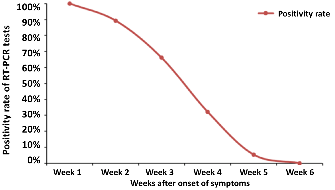 From Xiao et al. Shows how detection of SARS-CoV-2 is 100% at week 1, down to 0% at week 6.